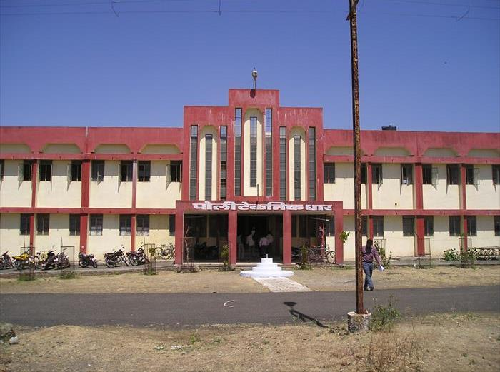 College Main Gate